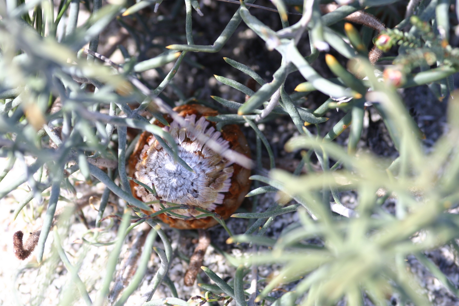 Dryandra/Banksia pteridifolia at Fitzgerald River National Park, WA